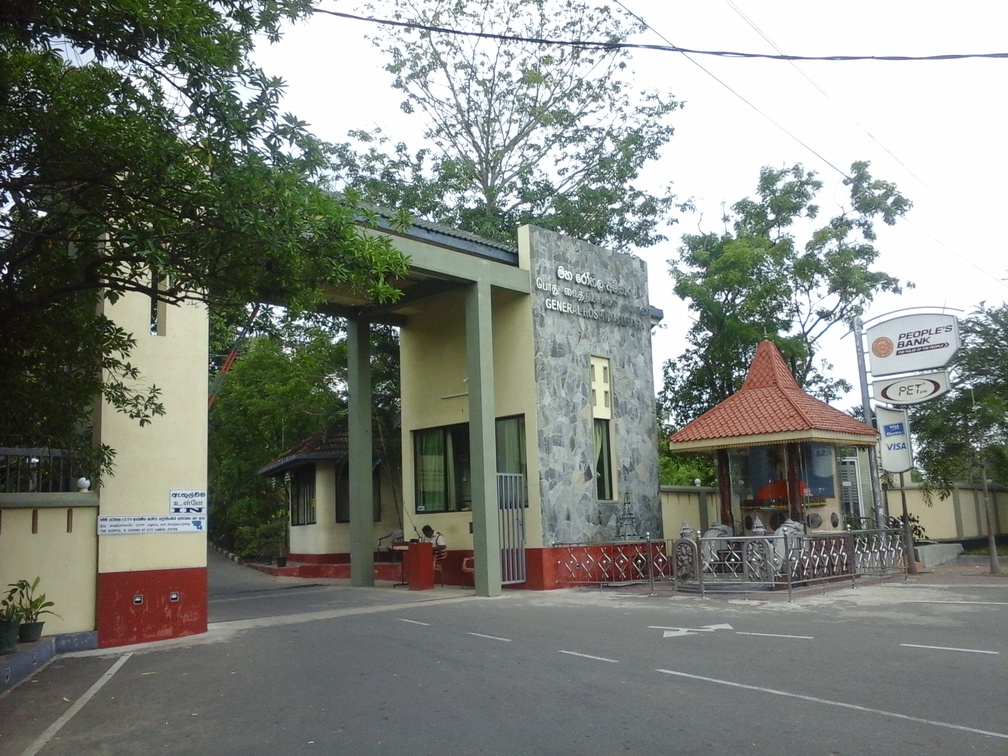 Ampara Hospital (The entrance)